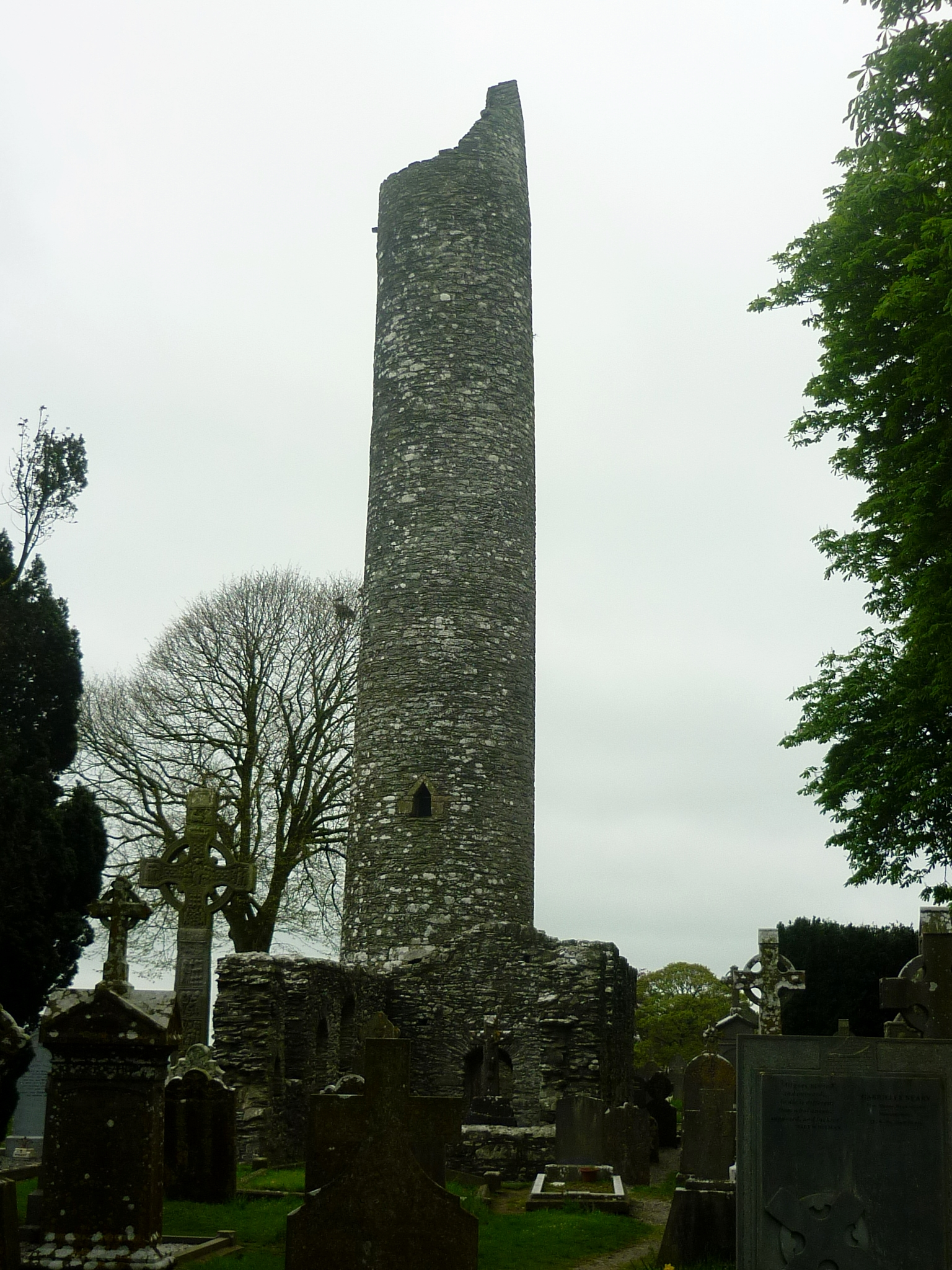 Round tower from Monasterboice